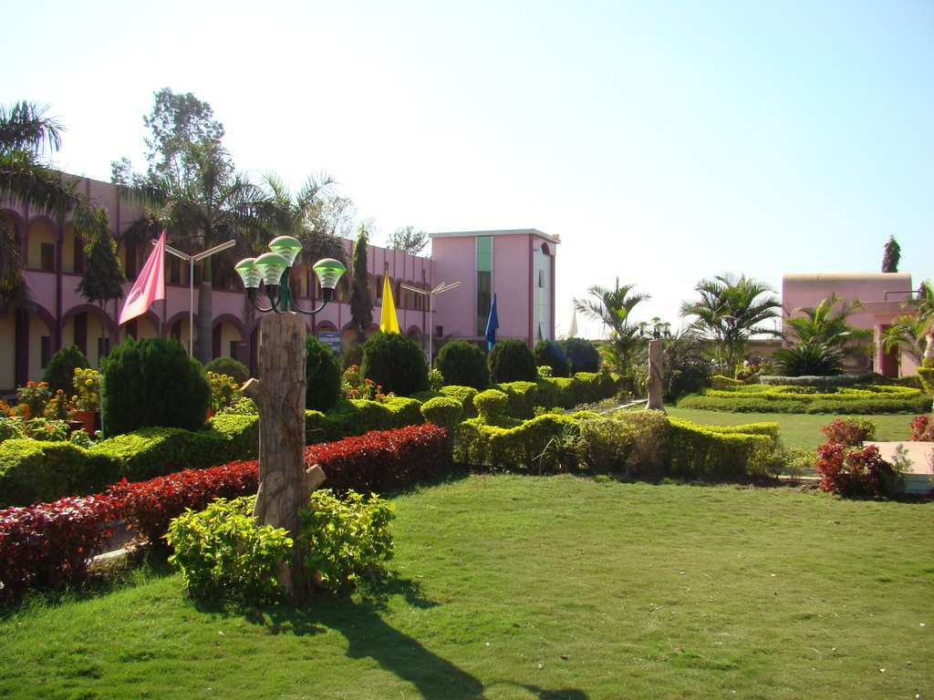 Gardens of stc.jpg